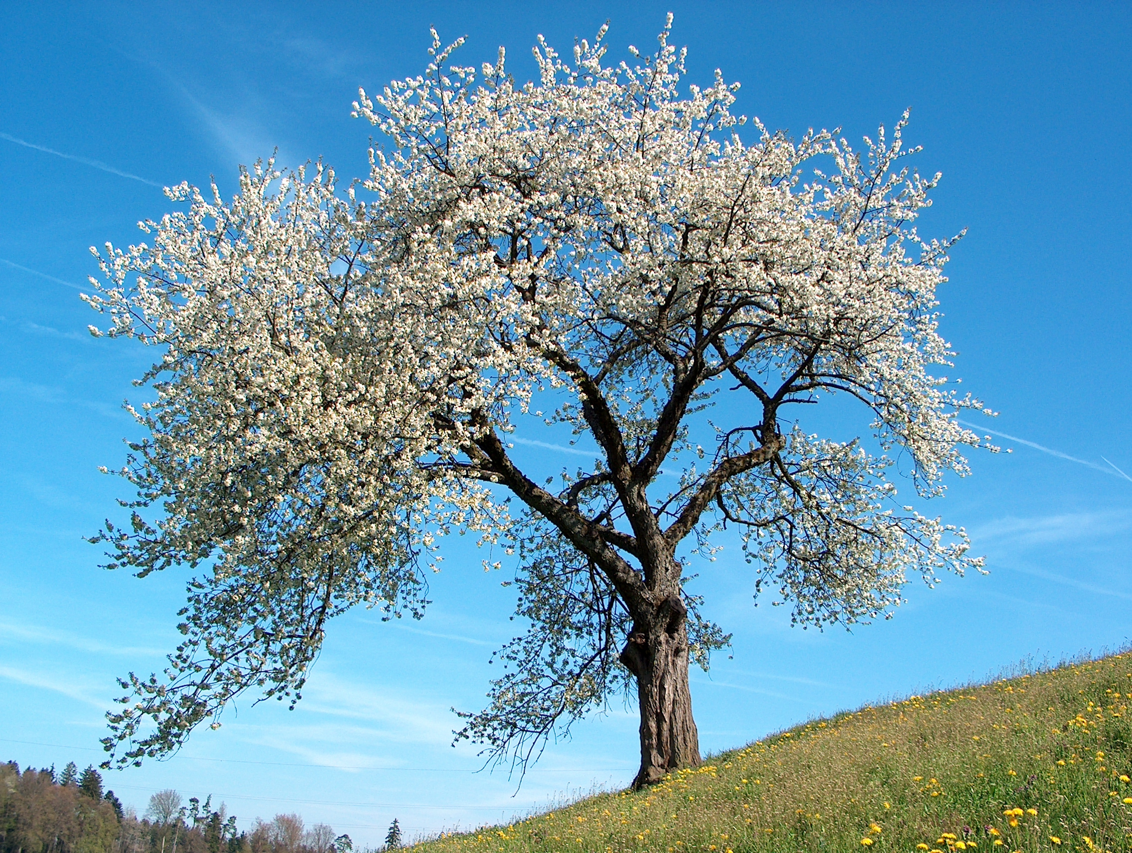 A Wild Cherry in flower.